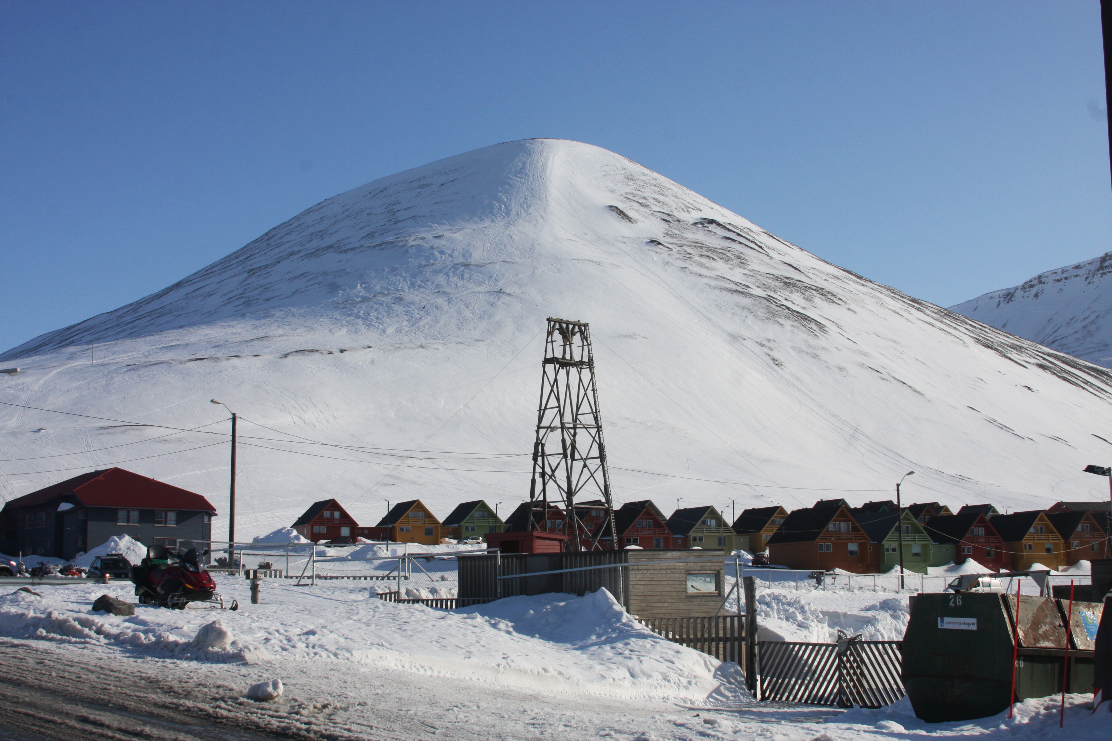 Mt Sukkertoppen (Sugarbowl) in Longyearbyen